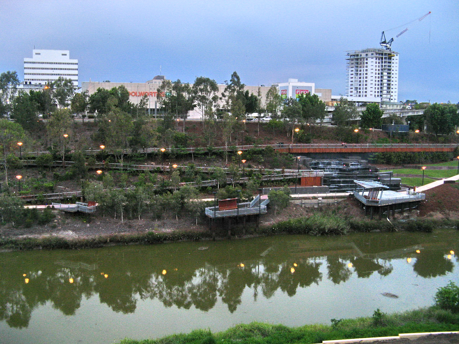 part of the ipswich cbd, under construction